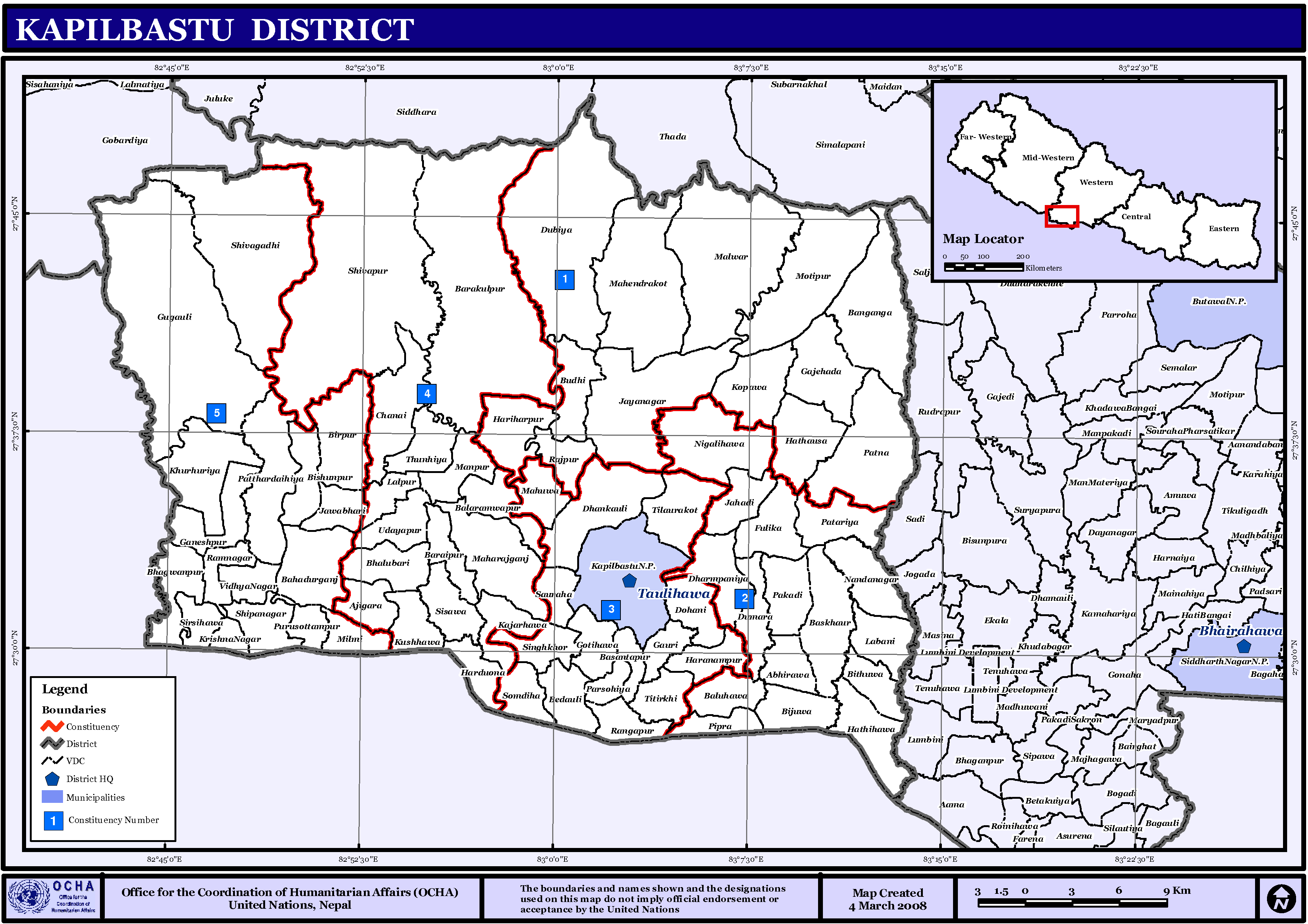 Map displaying Village Development Committees in Kapilbastu District, Nepal